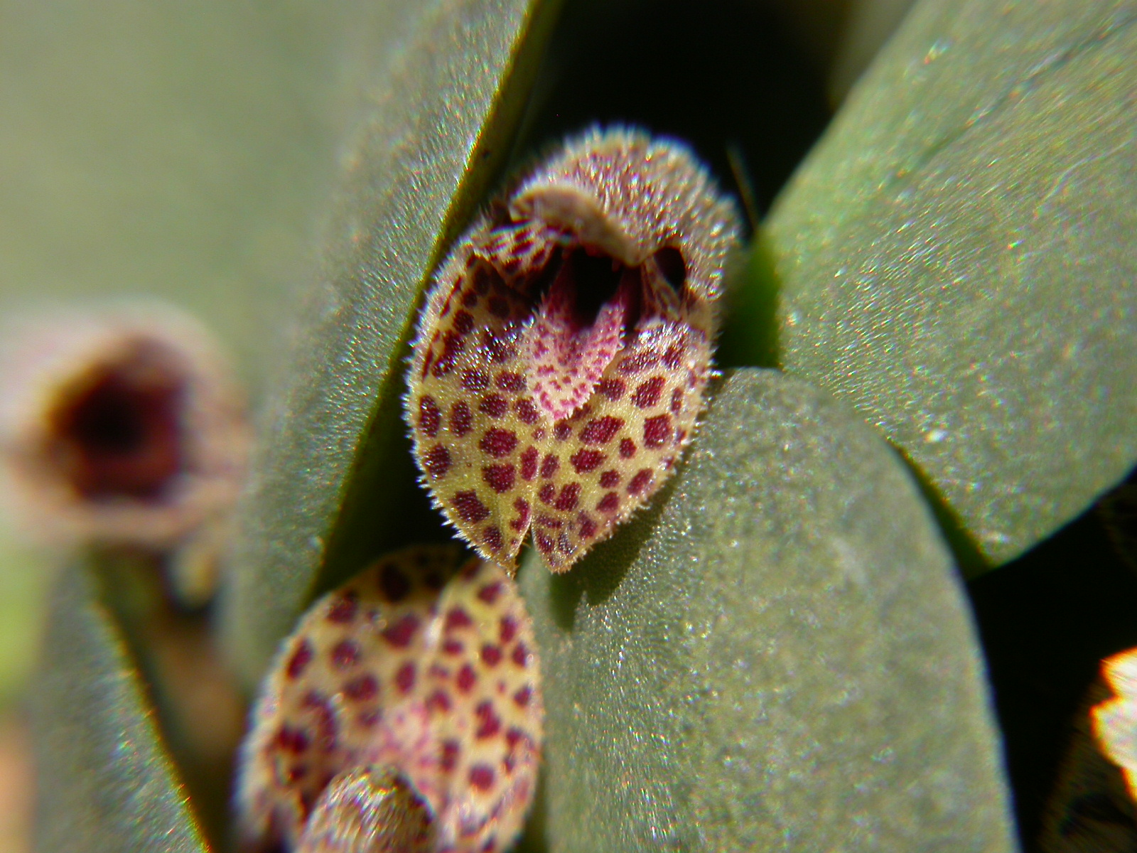 Apoda-prorepentia hystrix